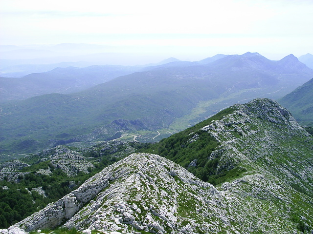 Biokovo mountains, Croatia